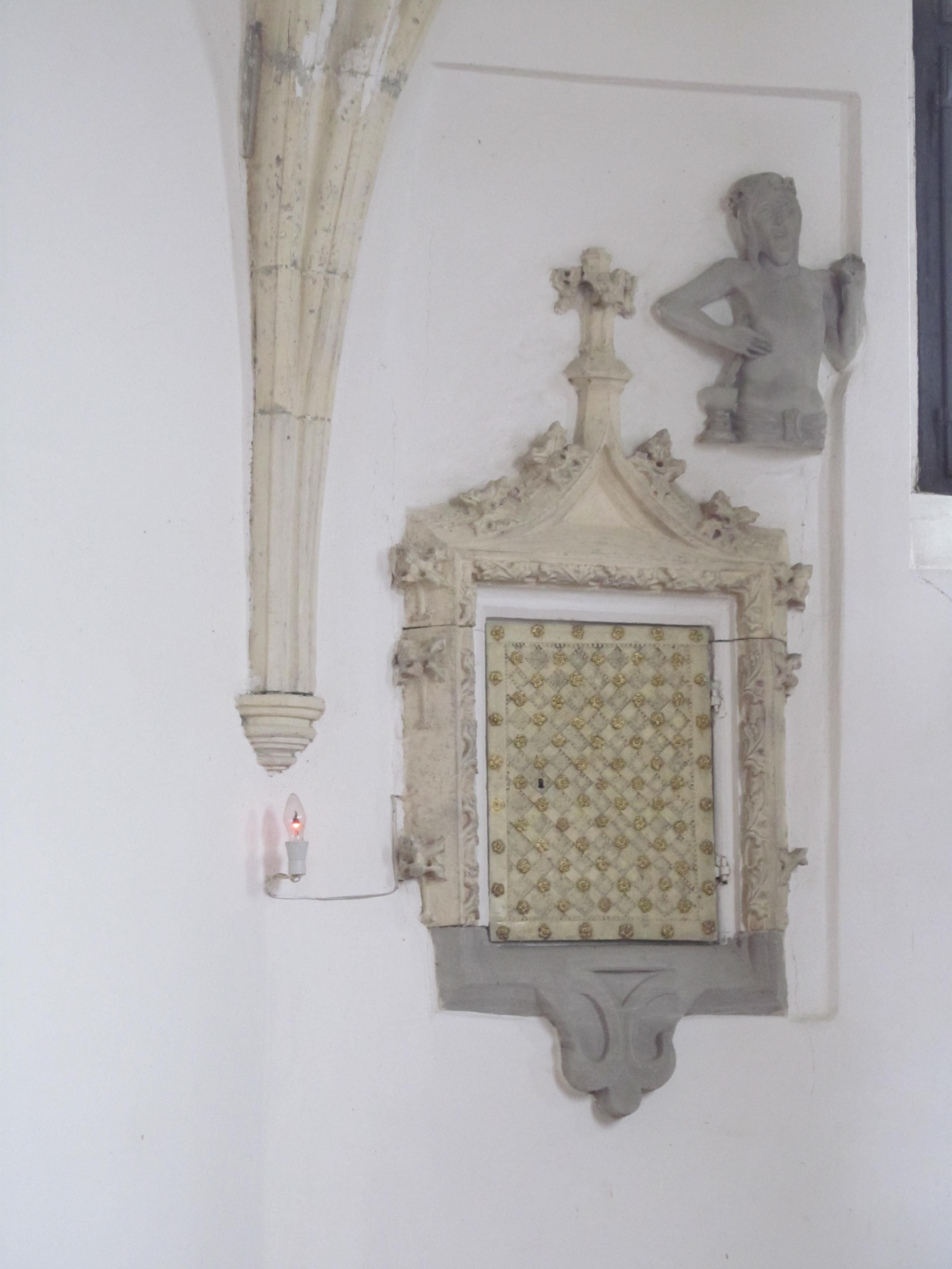 Church of Saint John the Baptist in Klapý – sanktuarium